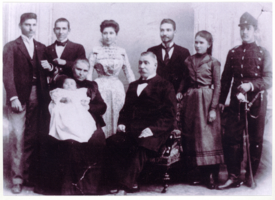 Nitschev Family